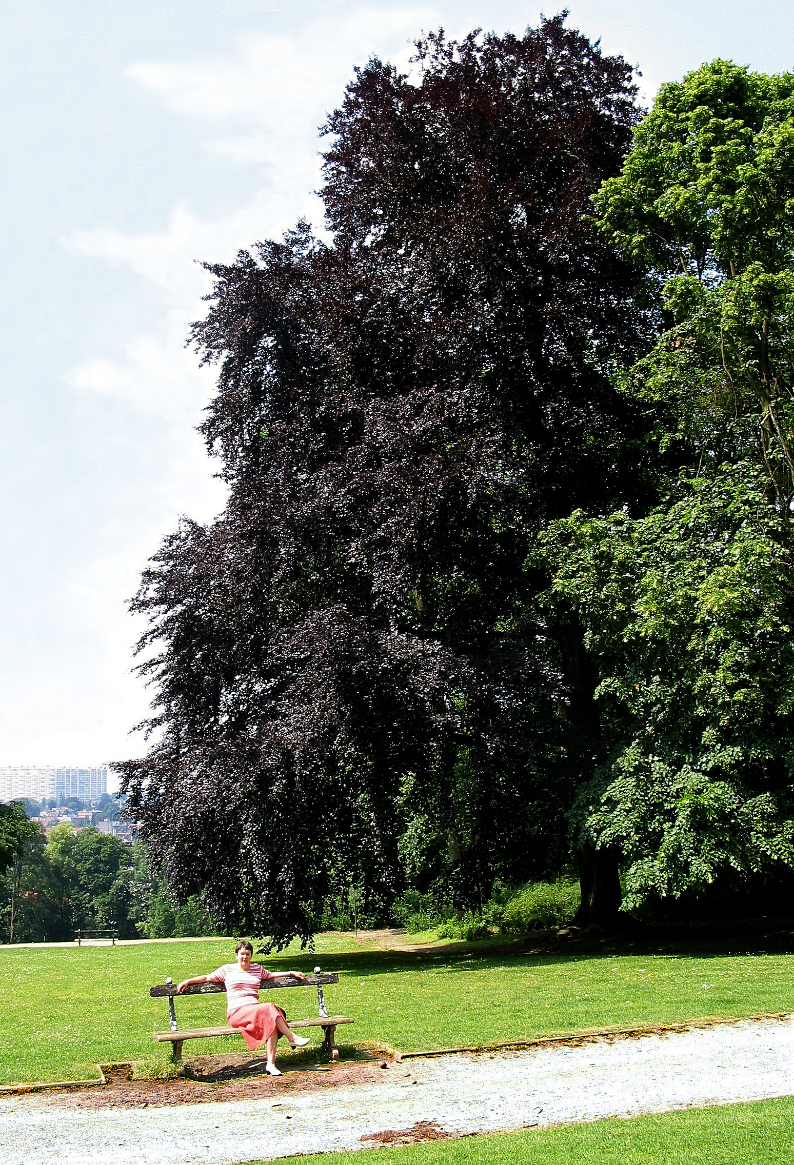 Uccle (Belgium), Parc du Wolvendael.